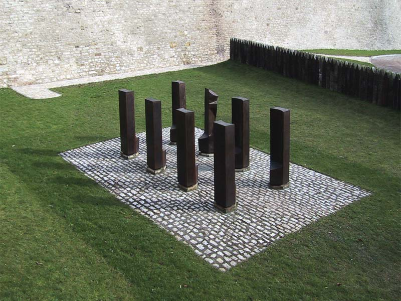 Monument for the Unknown Deserters of the German Wehrmacht memorial for the victims of the German military justice in Second World War – To all who resisted the Nazi regime established 1995 citadel Petersberg Erfurt/Germany artist Thomas Nicolai / AAA.